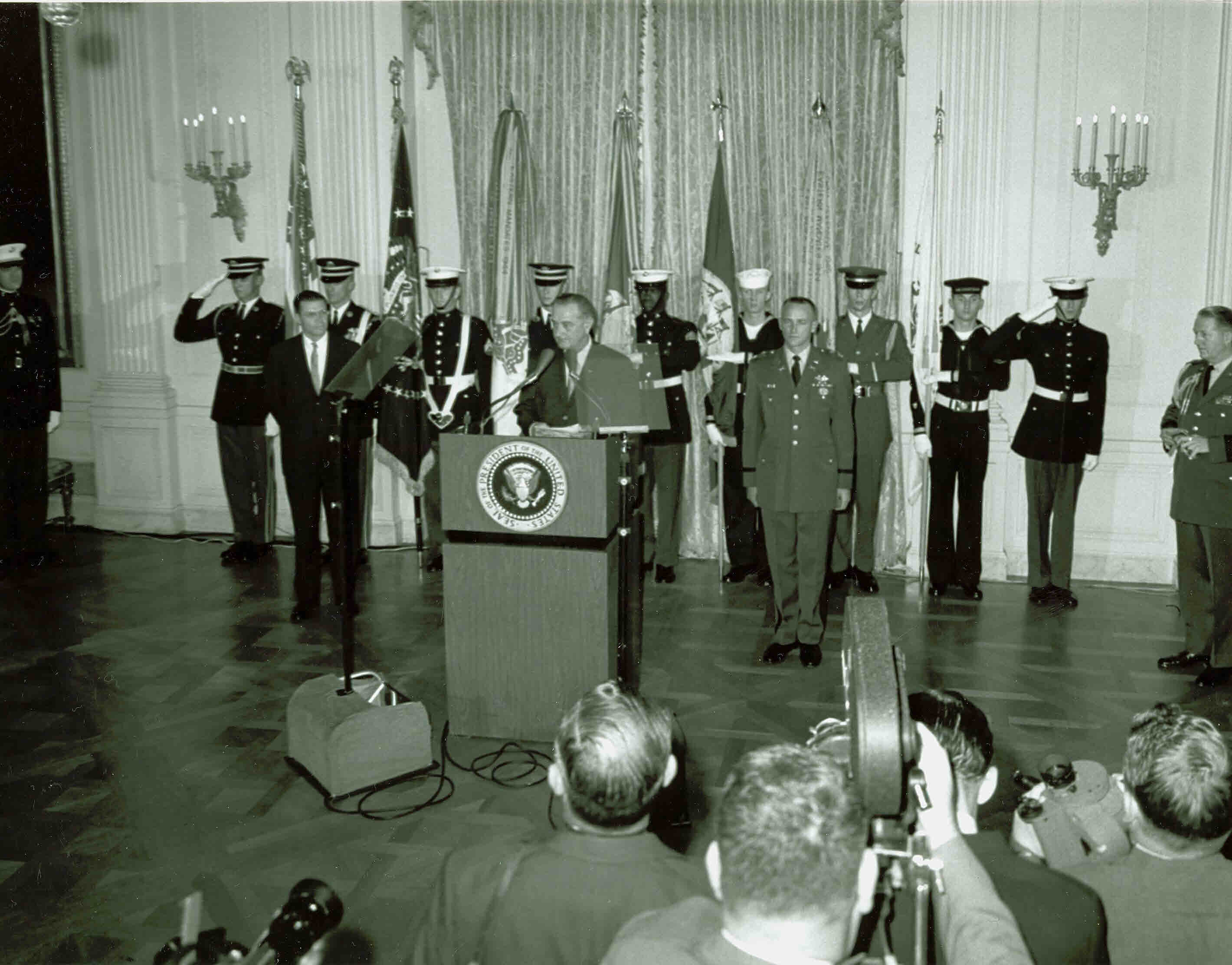 President Lyndon B. Johnson presented the first Medal of Honor of the Vietnam War to Captain Roger H. C. Donlon (standing right, at attention) at the White House on December 5, 1964, for his actions while at Camp Nam Dong in Vietnam.